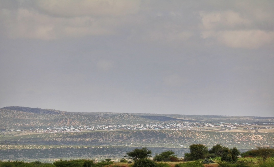 Aw Barre outskirts